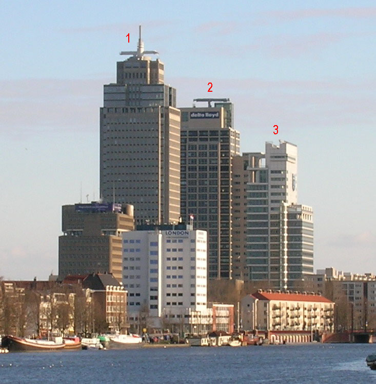 Some skyscrapers in Amsterdam (the Netherlands) next to the Amstel Station, seen from the Amstel river. The skyscrapers are named after famous dutch painters. 1. Rembrandt tower, highest building of Amsterdam (135m / 443 feet), 2. Mondriaan tower (123m / 404 feet), 3. Breitner center, the main office of Philips (95m / 312 feet). Picture taken by SanderK.